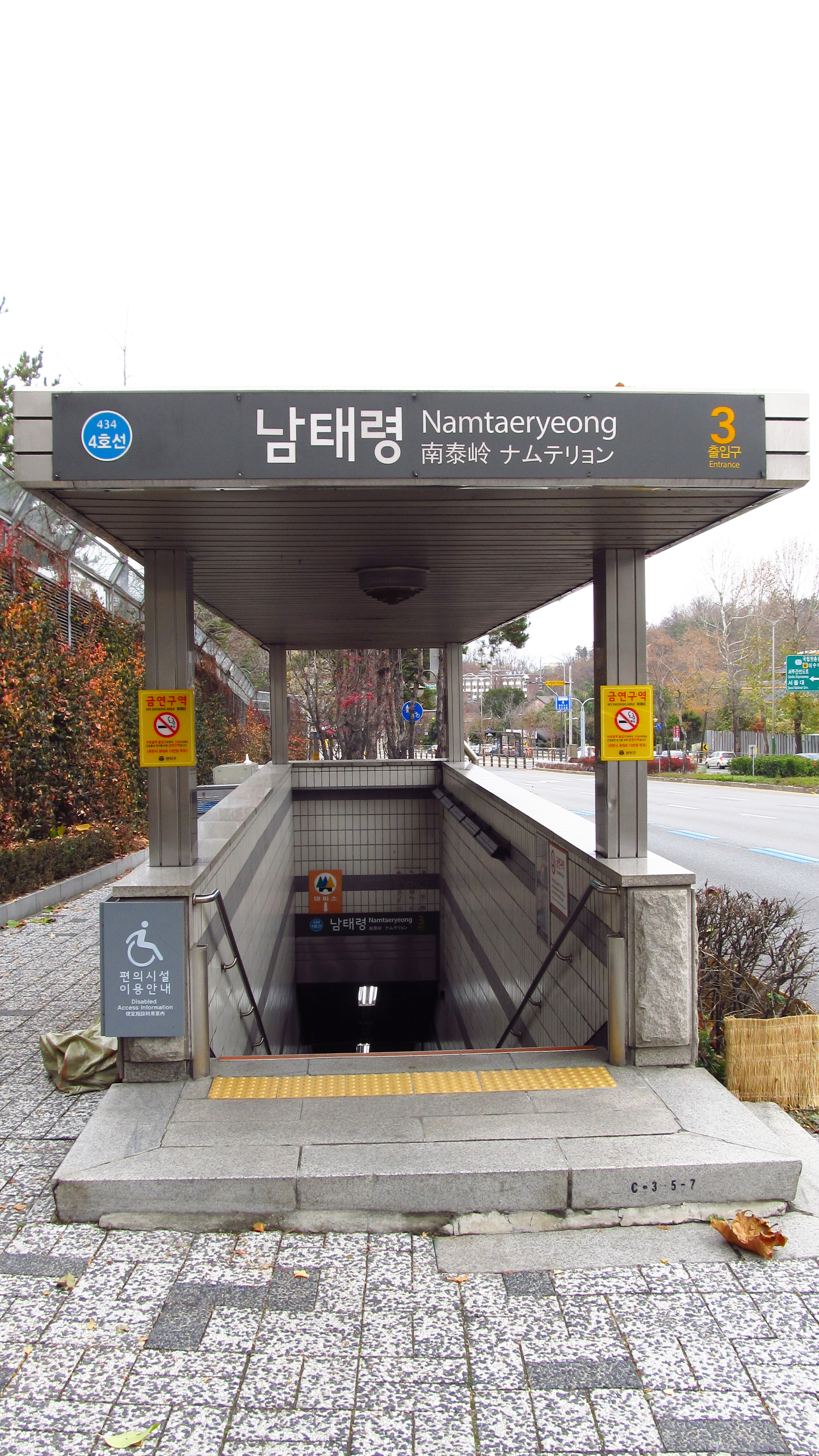 The no.3 entrance to Namtaeryeong Station on the Seoul Metro Line 4 in Gwanak-gu, Seoul, Republic of Korea(South Korea)